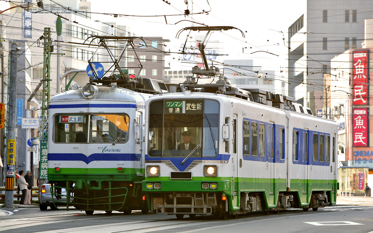 Fukutetu Type 200 ( left ) & Type 770